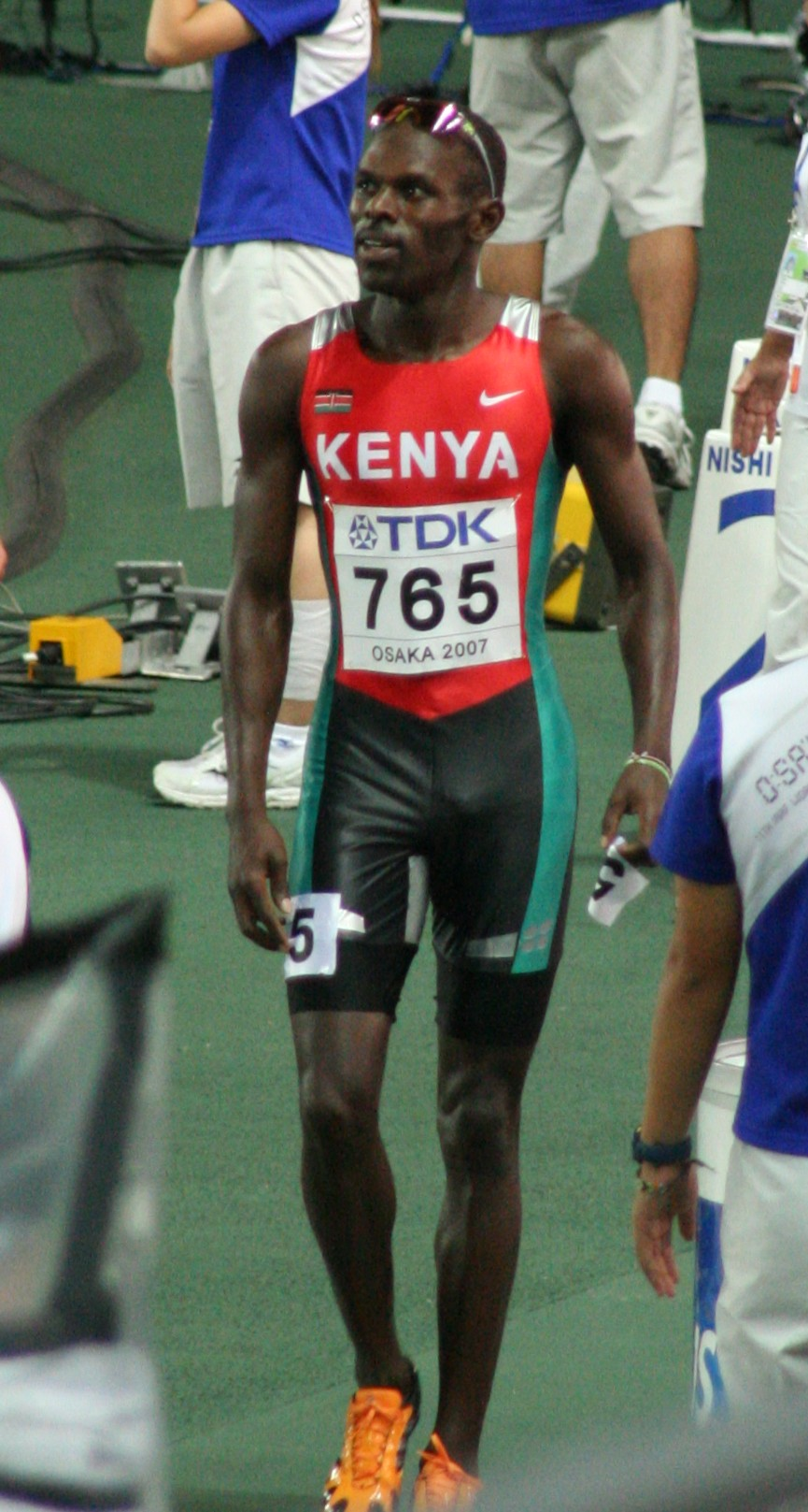 World Athletics Championships 2007 in Osaka - 800 metres runner Wilfried Bungei after the semifinal